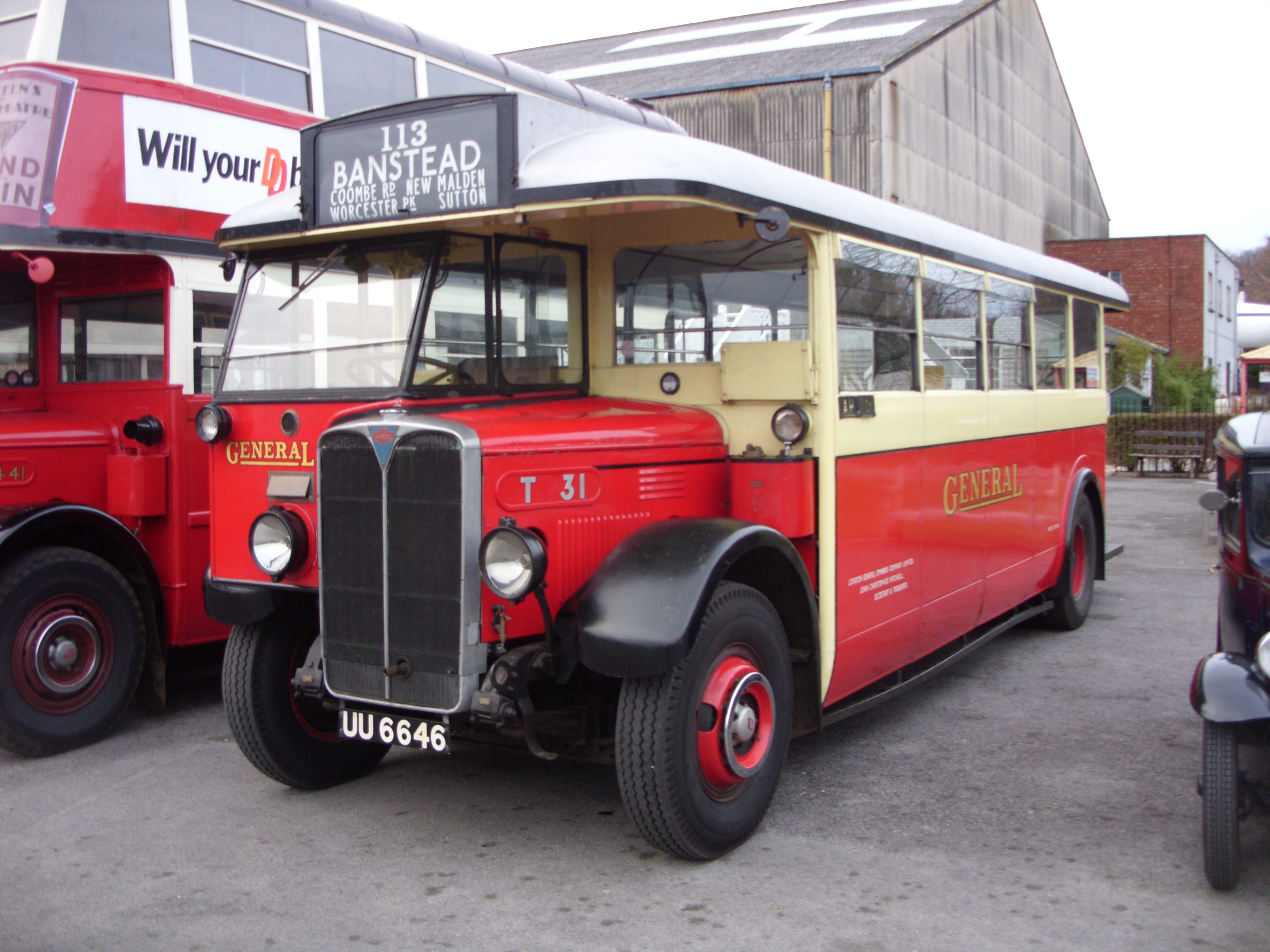 A 1929 AEC Regal bus registration UU6646 at Brooklands Museum